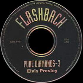 CD of Elvis Presley’s bootleg – Pure Diamonds Vol. 3 (Gospel Greats And Stax) (1996)